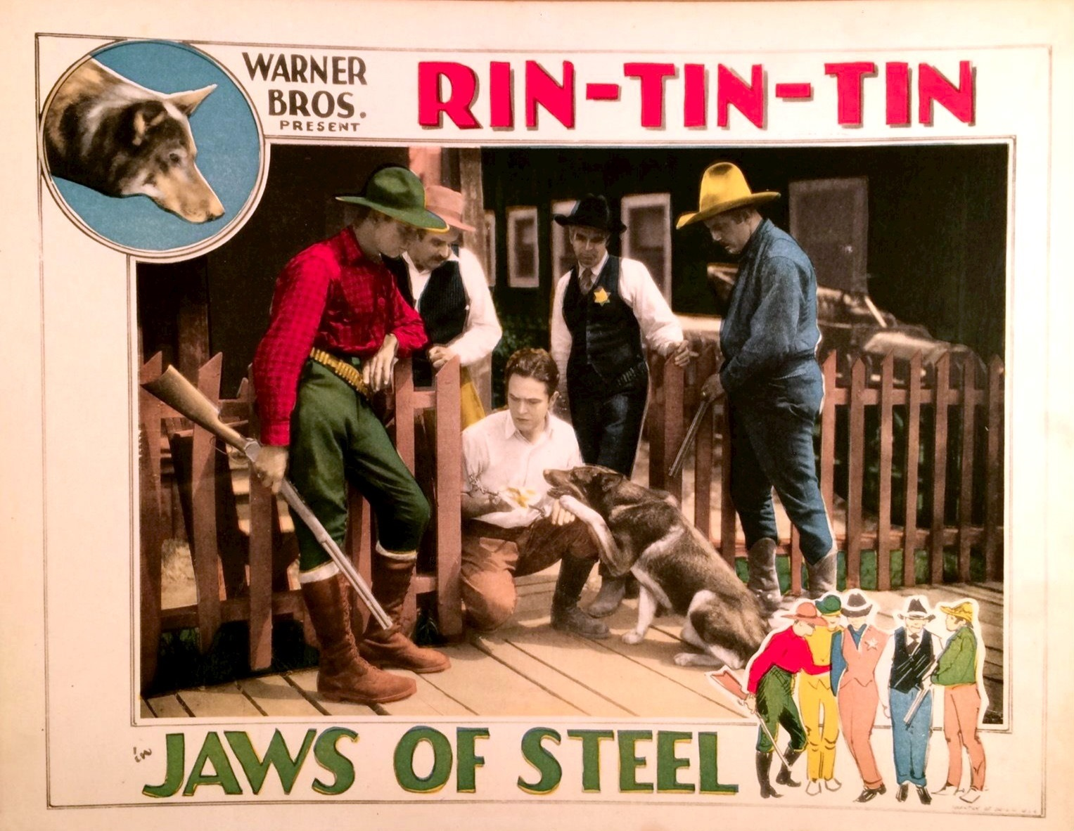 Lobby card for the American family adventure film Jaws of Steel (1927). There are no copyright marks on the card. At bottom right is Country of origin USA.